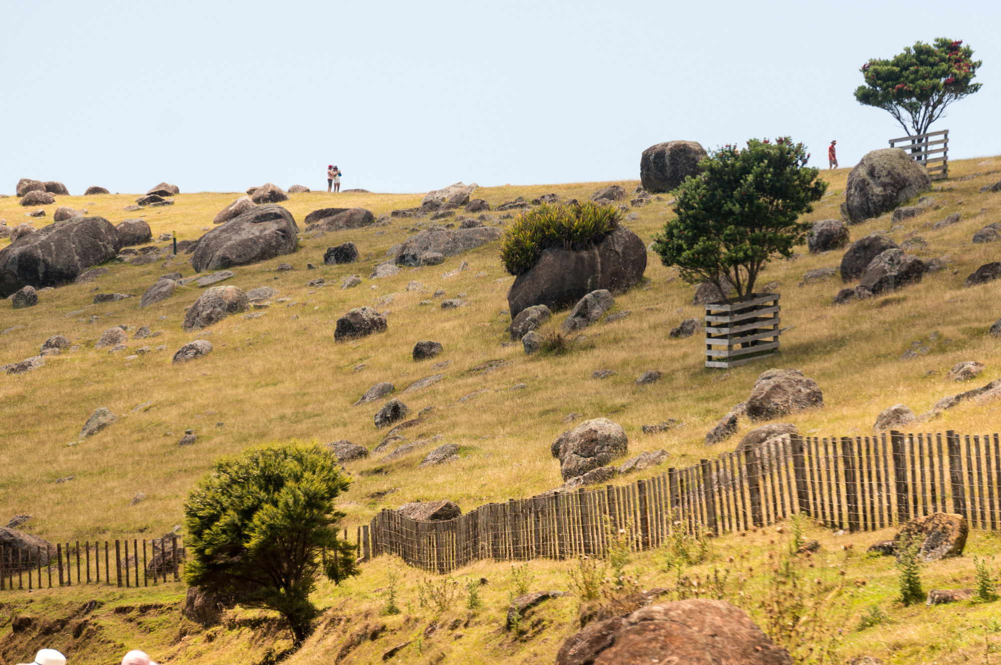 Tourists exploring the bouldered landscape of Stony batter. Pohutukawa trees planted and protected from grazing stock.